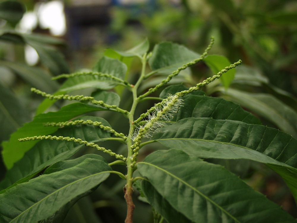 Male catkins of japanese chestnut (Castanea crenata) in botanical garden of Moscow University (indoor cultivation)